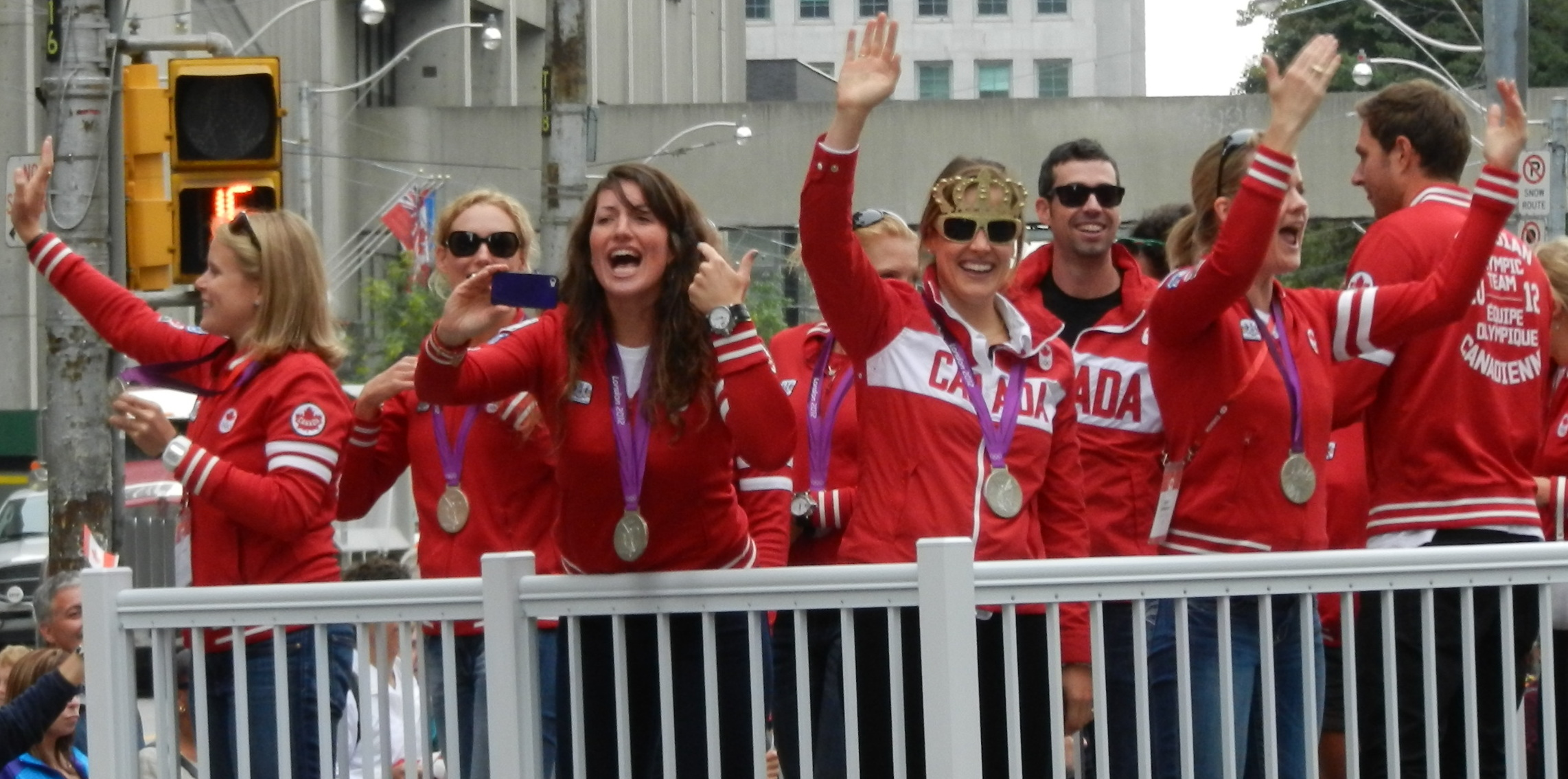 Members of the London 2012 Canadian Women's Eights rowing team at the Olympic Heroes Parade in Toronto